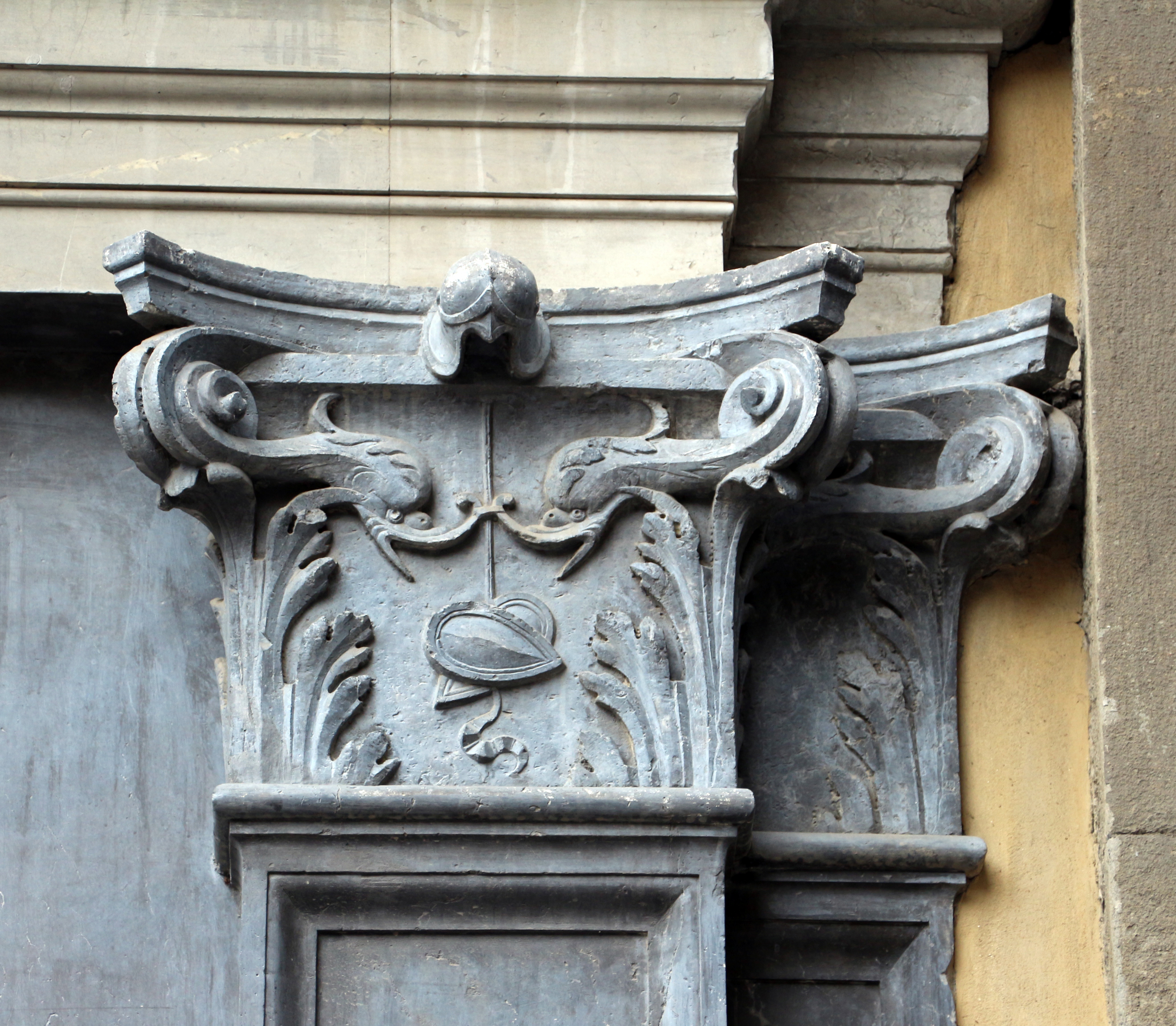 Bergamo